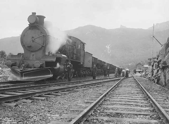 A steam locomotive hauling an ore train on Ofotbanen, at Narvik, Norway.